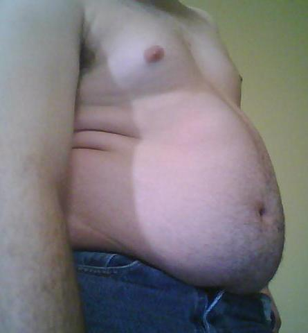 Side view of an overweight (195 lbs) 16-year old boy's stomach.